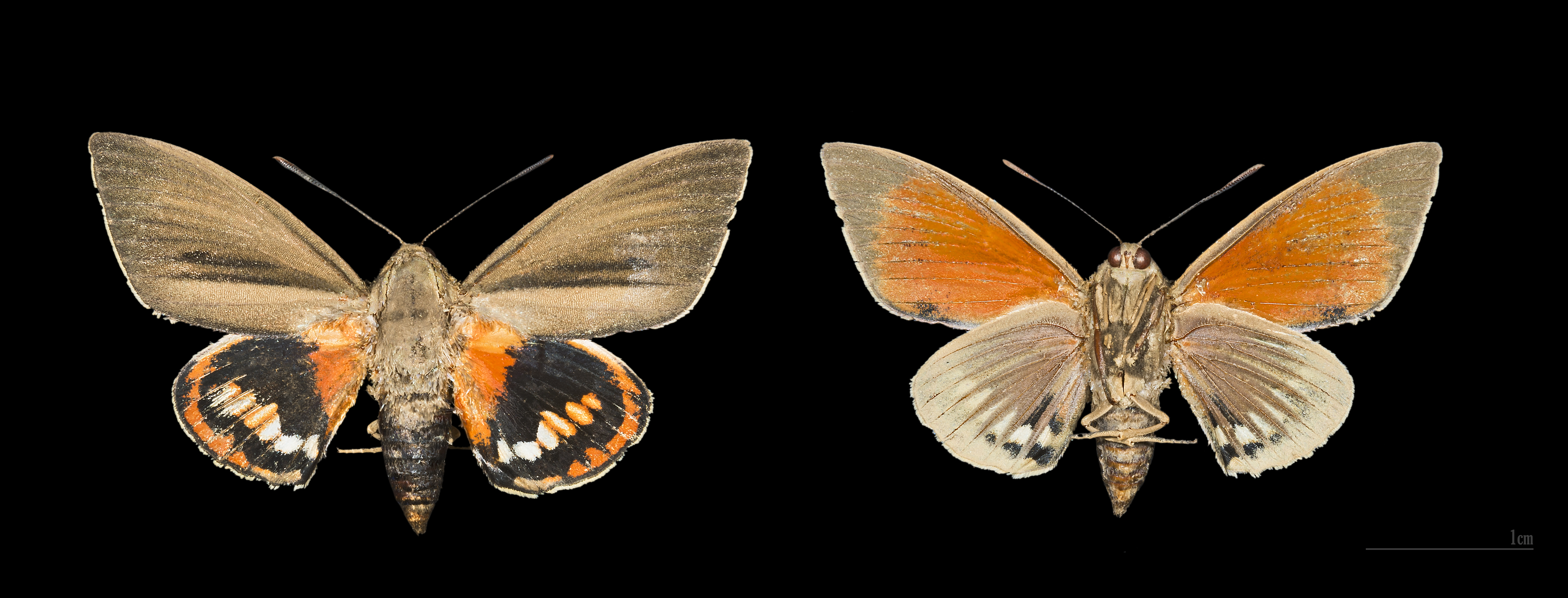 Paysandisia archon - Two views of same specimen